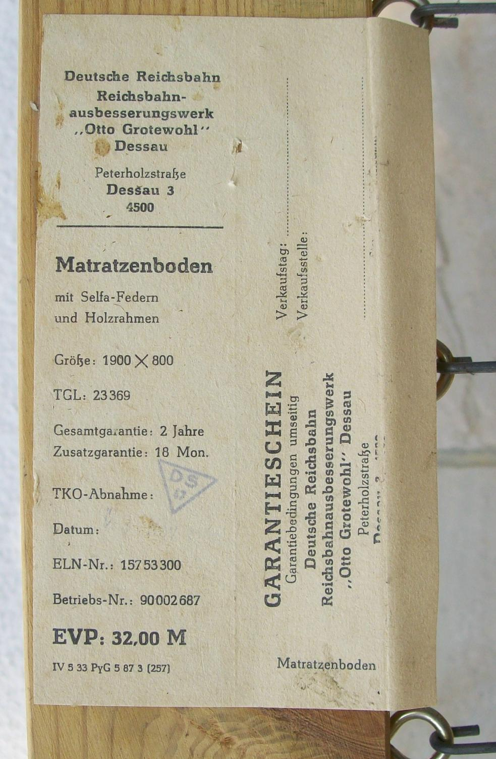 Type label: Example for consumer goods manufacturing in companies of the heavy industry in the former GDR